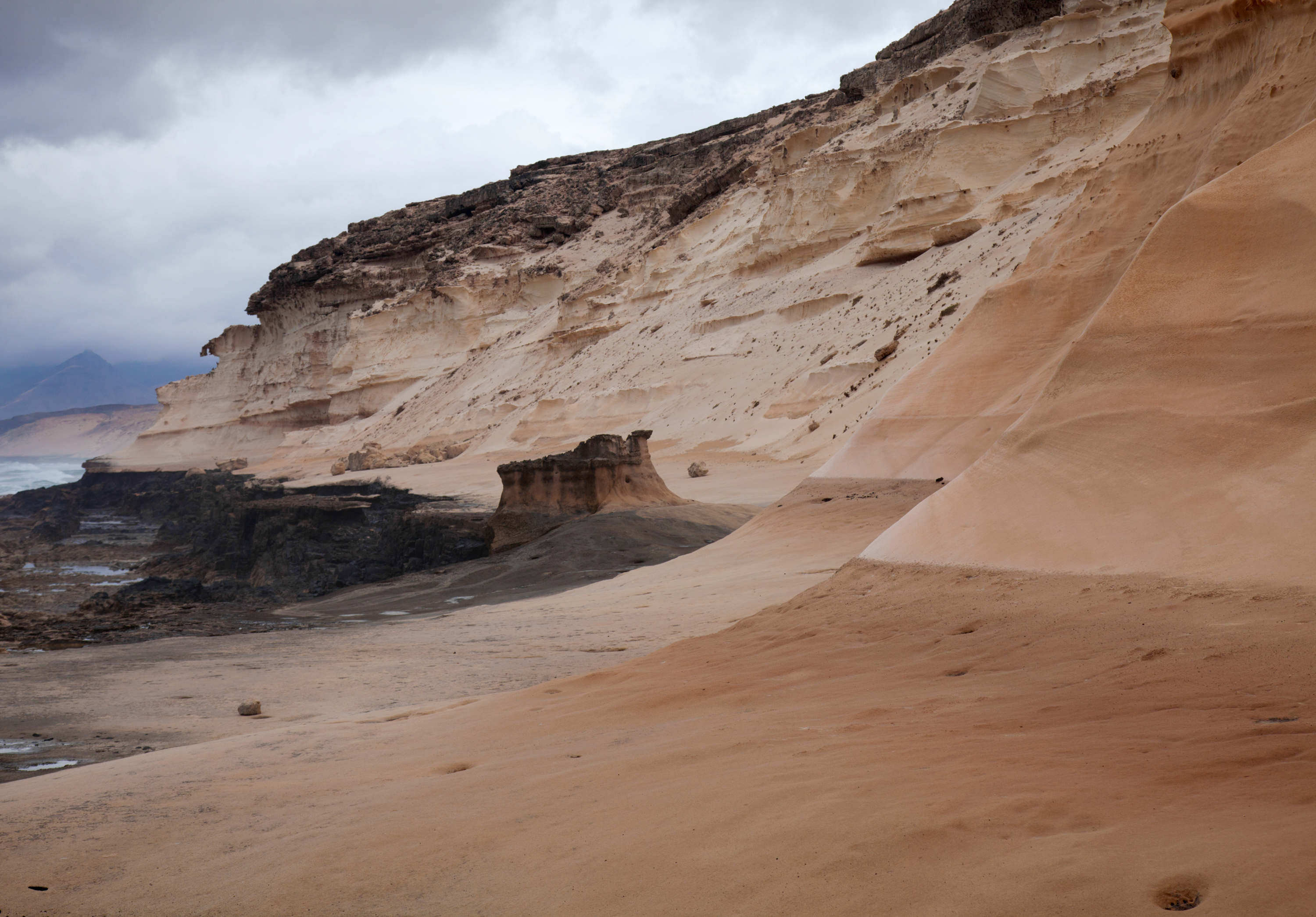 Eroded west coast of Fuerteventura at Jandia, close to La Pared This is a photography of a Special Area of Conservation in Spain with the ID: ES7010033. Natura2000 entry, EEA entry